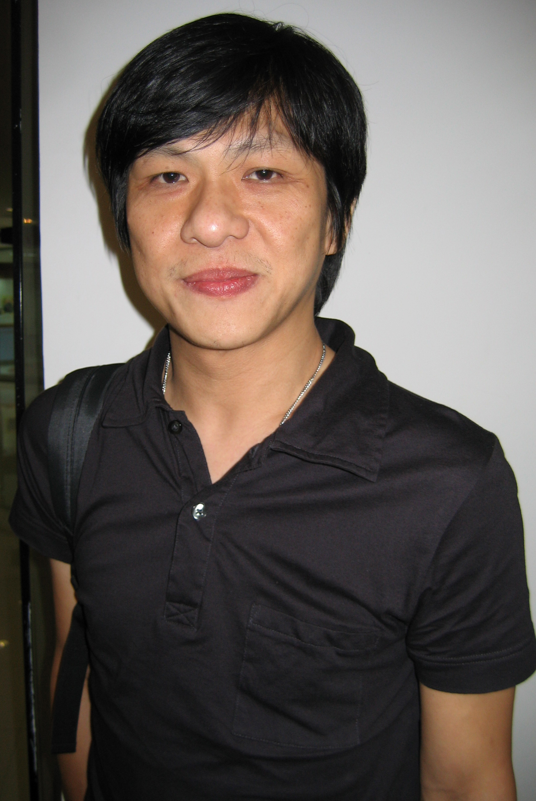 Wisit Sasanatieng, born April 25, 1964 in Bangkok, Thailand, is a film director and screenwriter.